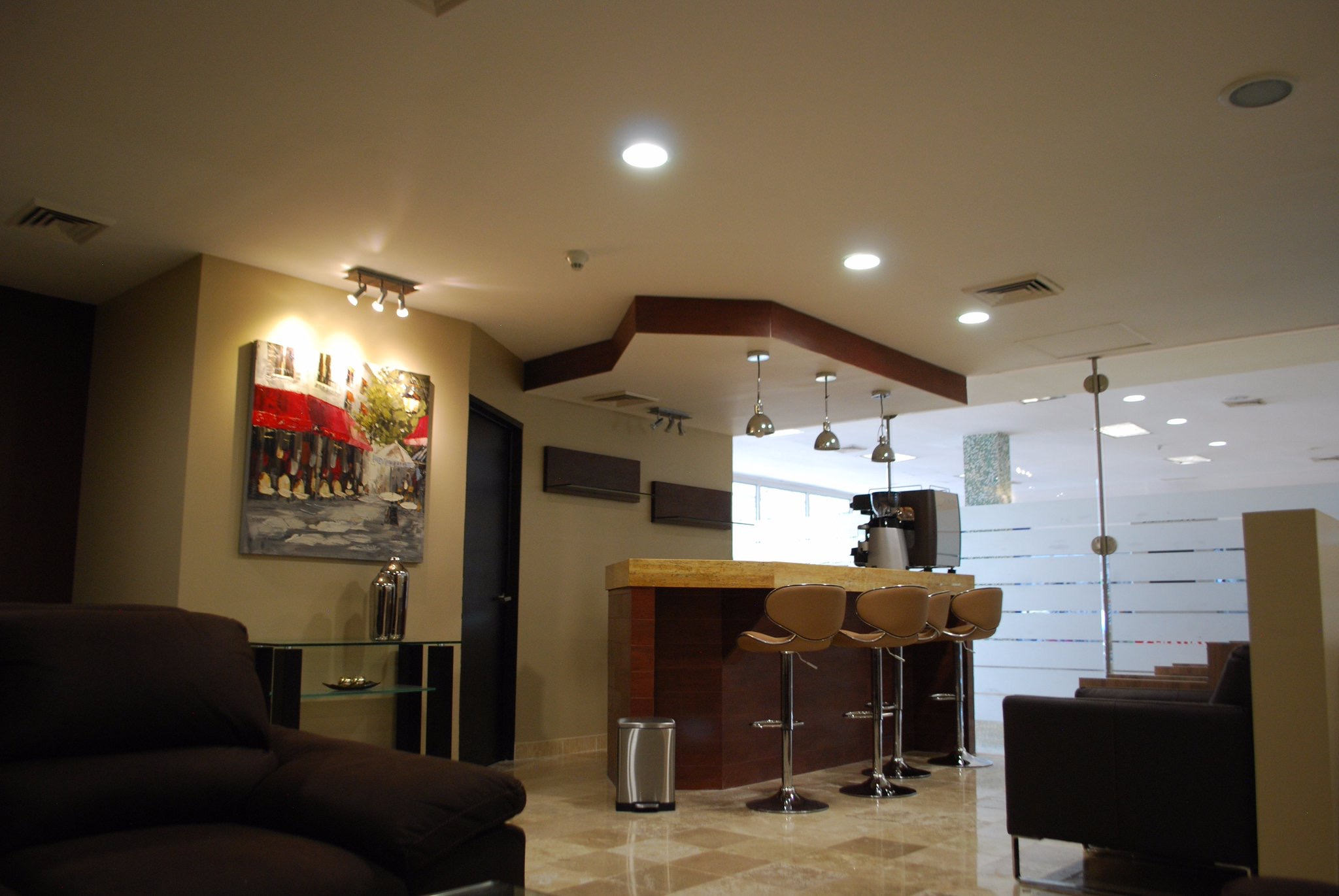 VIP Lounge TGZ Airport